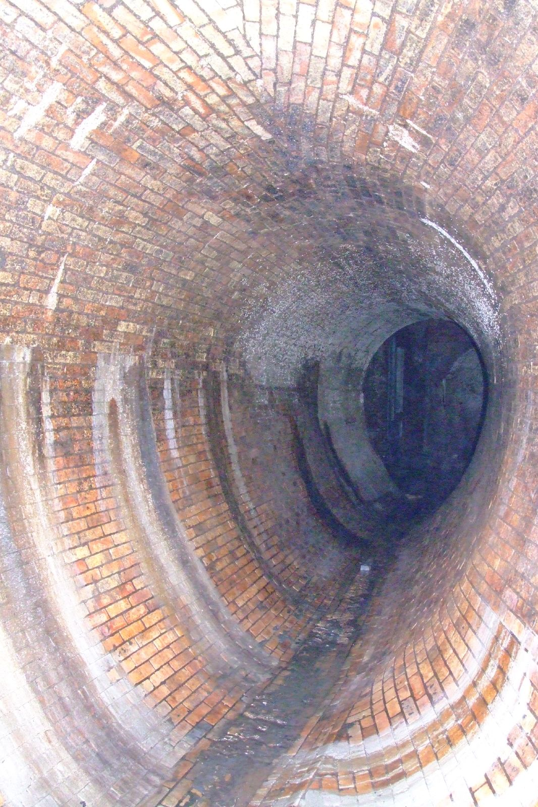 Egg-section sewer in the Victorian sewer system of Brighton, East Sussex. In the narrow part of the tunnel the flow speed increases thus preventing sediment.